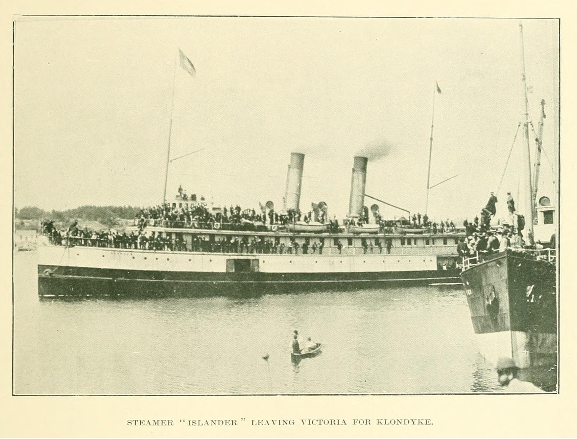 Islander (steamship) departing Victoria, BC with passengers bound for the Klondike gold fields, 1897.